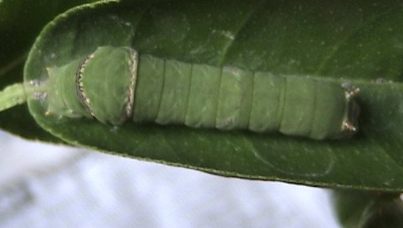 Lime butterfly caterpillar in 4th instar. Taken shortly after moulting in my own garden.